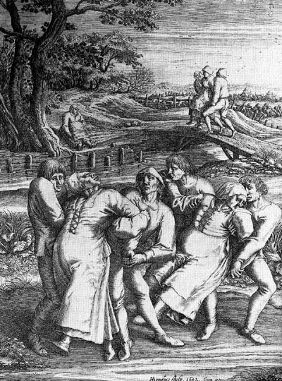 The Dancing Plague